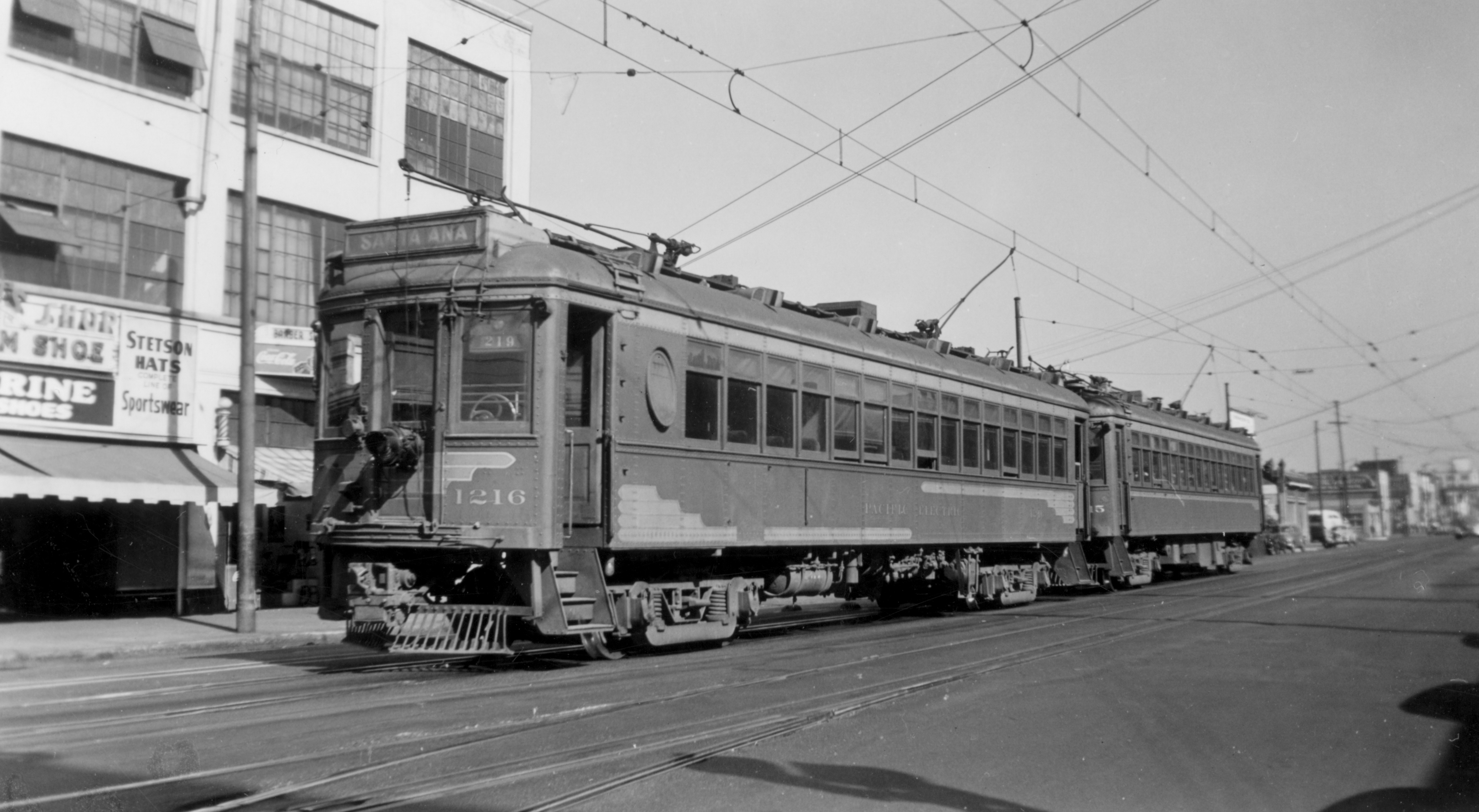 These "Red Cars" are headed southbound on San Pedro Street in downtown Los Angeles — about to turn east on 9th Street, on their way to Santa Ana (1940s). The Pacific Electric Railway 'Red Car' system (former) of Southern California. Acc#2012-1 (PKB)